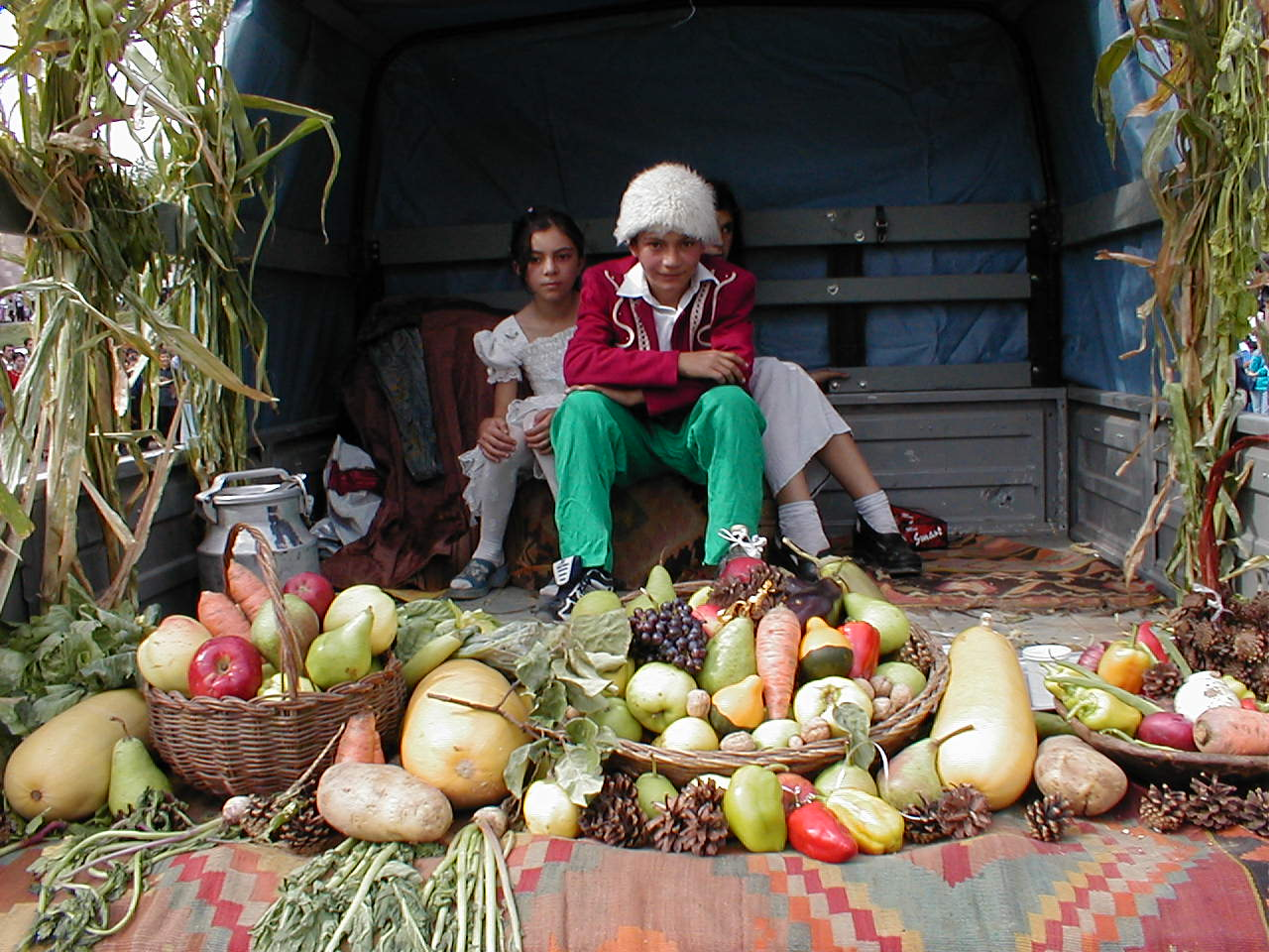 Some Kids from Somewhere.